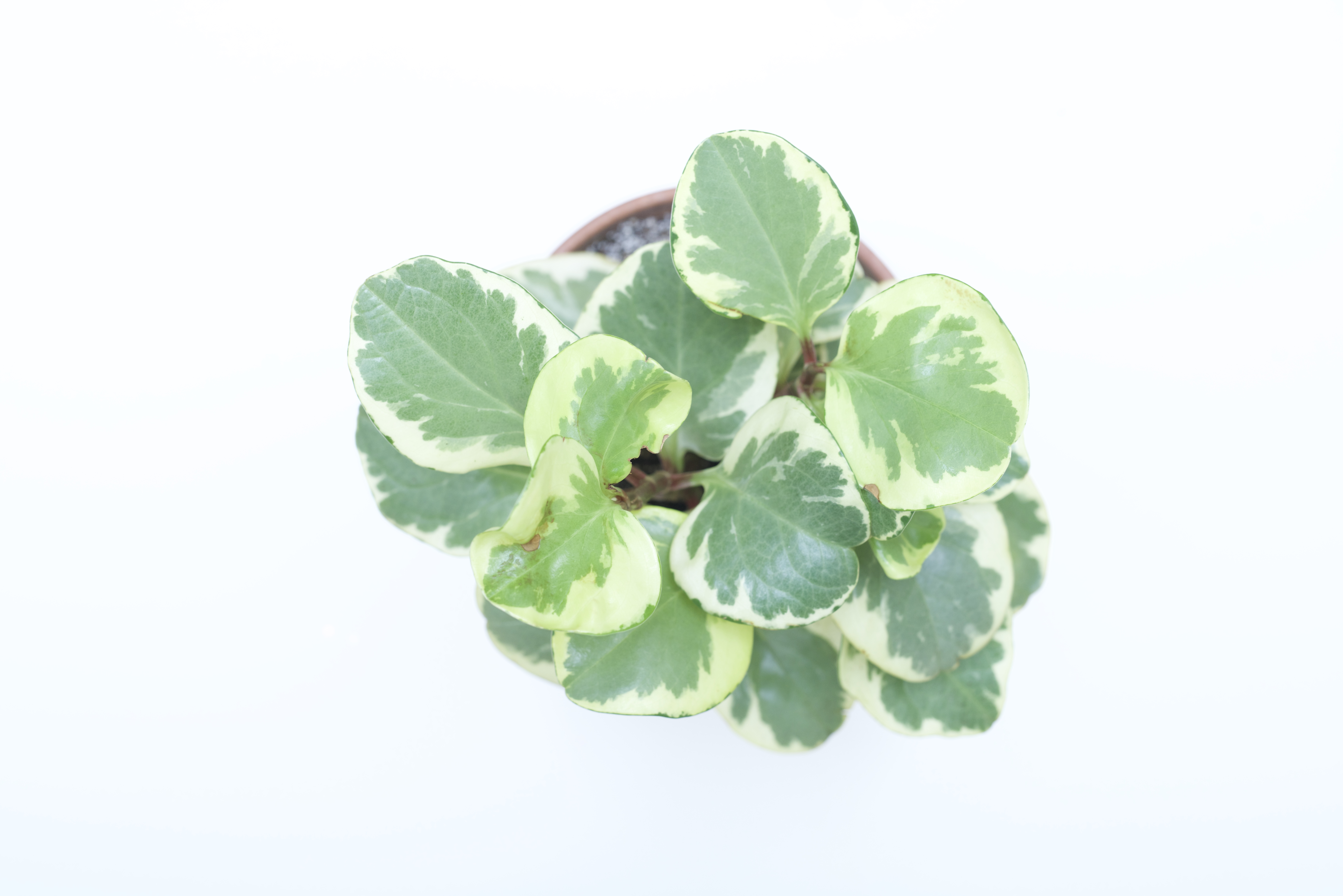 peperomia obtusifolia variegata